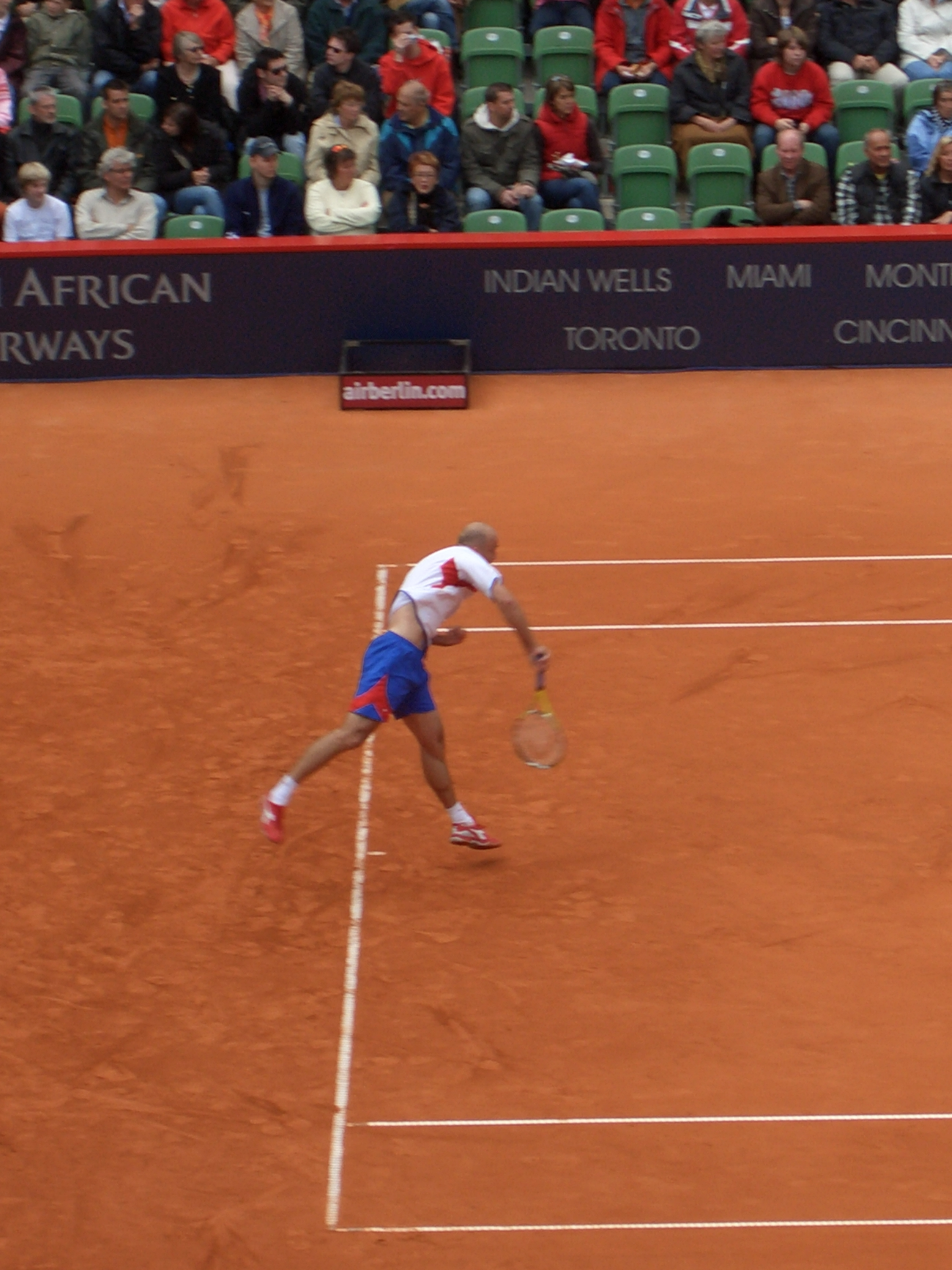 Ivan Ljubicic at the Hamburg Masters 2007